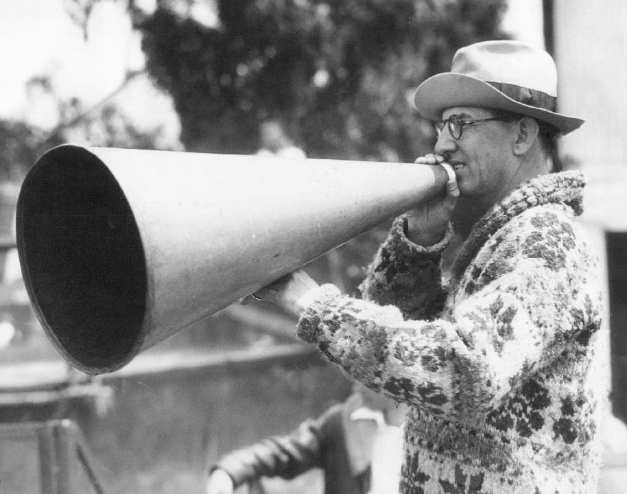 1931 California Golden Bears Crew Coach Carroll Ky Ebright Press Photo